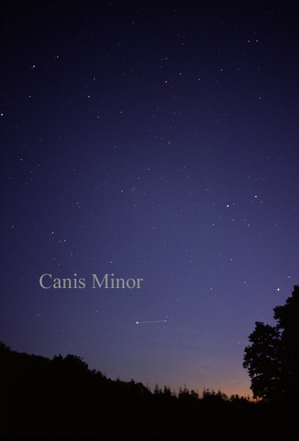 Photography of the constellation Canis Minor, lesser dog